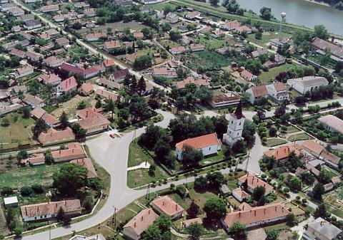 Tiszaroff, Hungary, aerialphotography